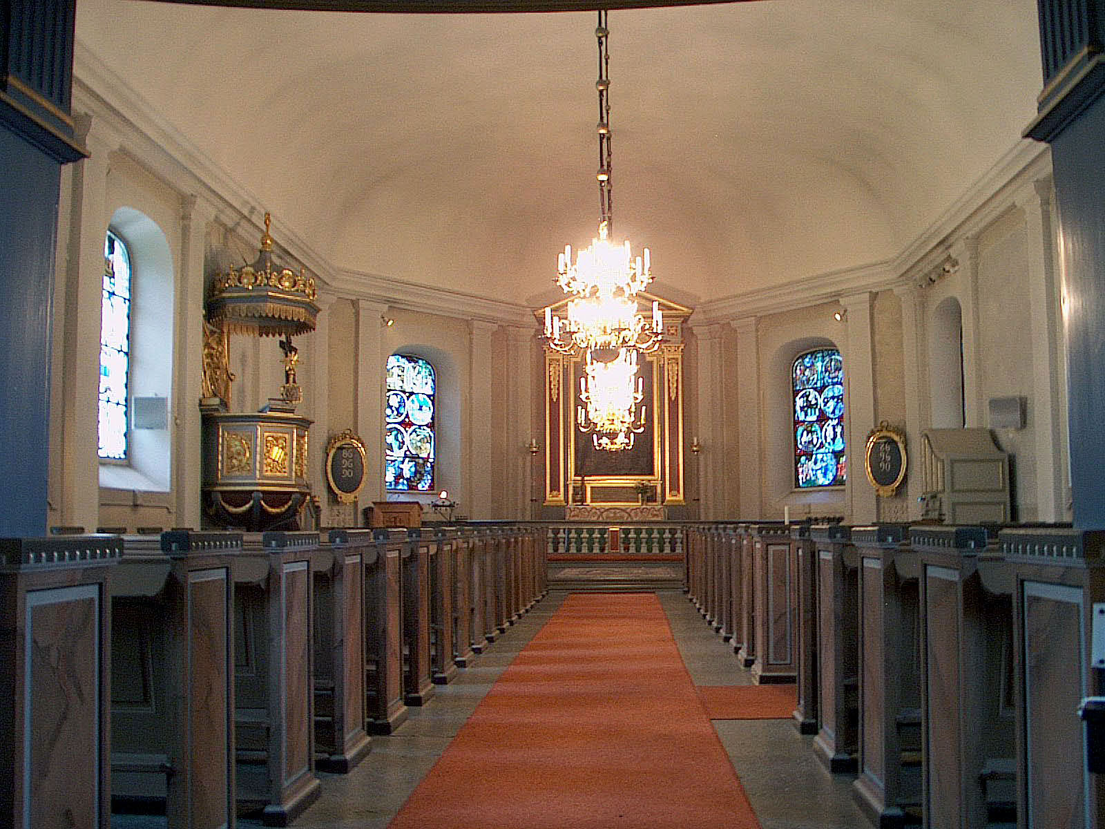 Mjölby churh.Interior.